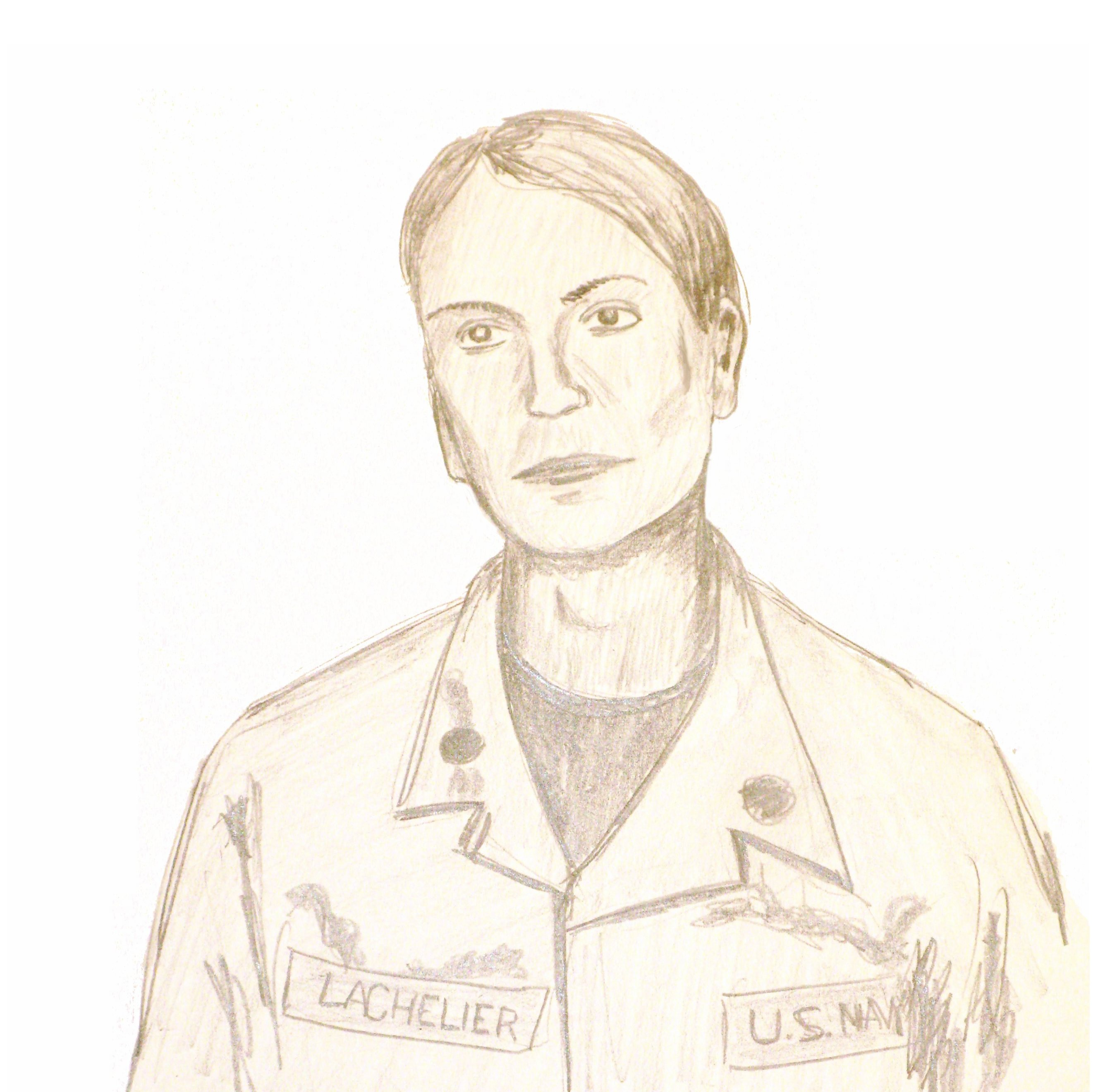 Suzanne Lachelier